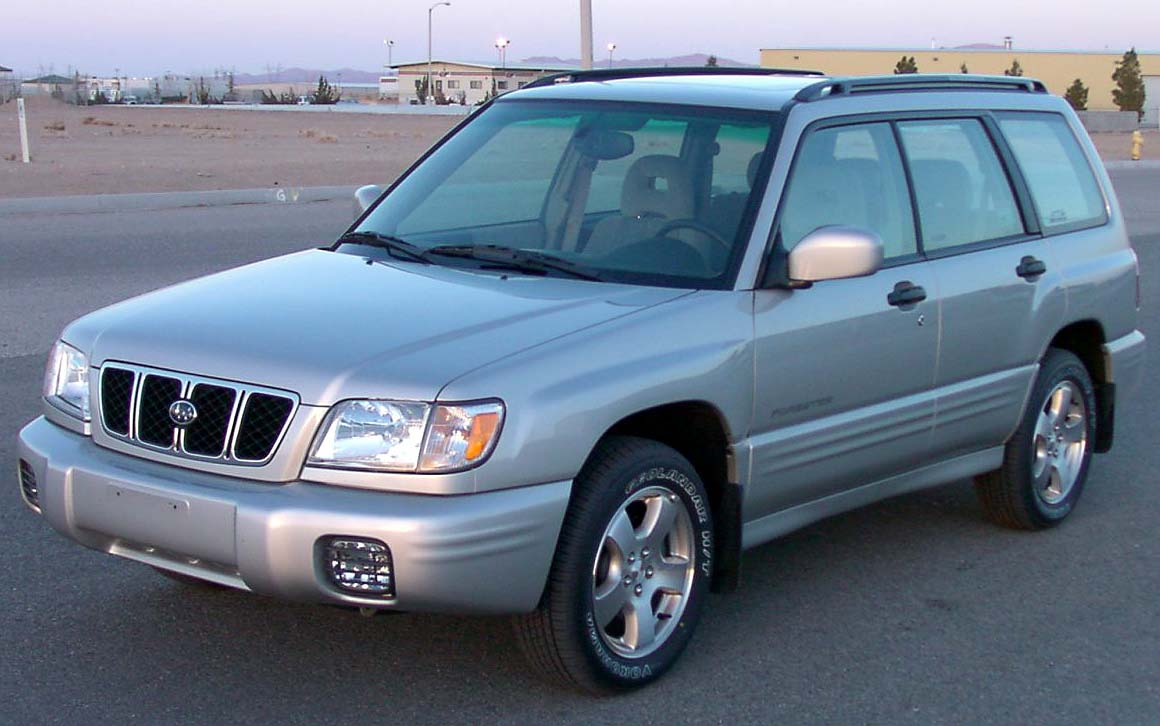 2001 Subaru Forester photographed in USA.